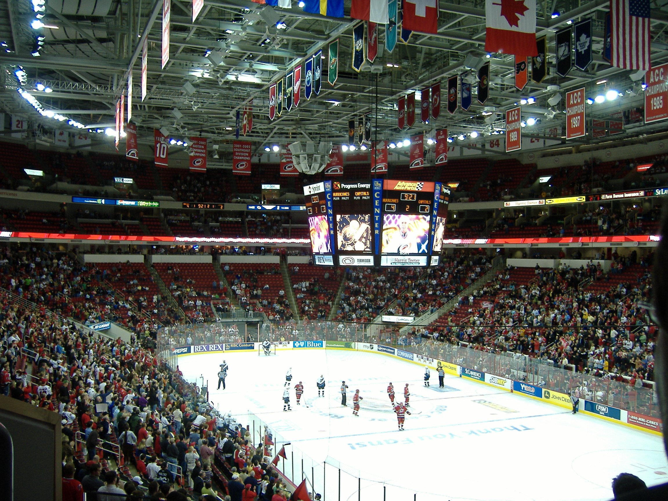 RBC_Center, Raleigh, Game 38: Washington Capitals vs. Carolina Hurricanes, 04/03/2006